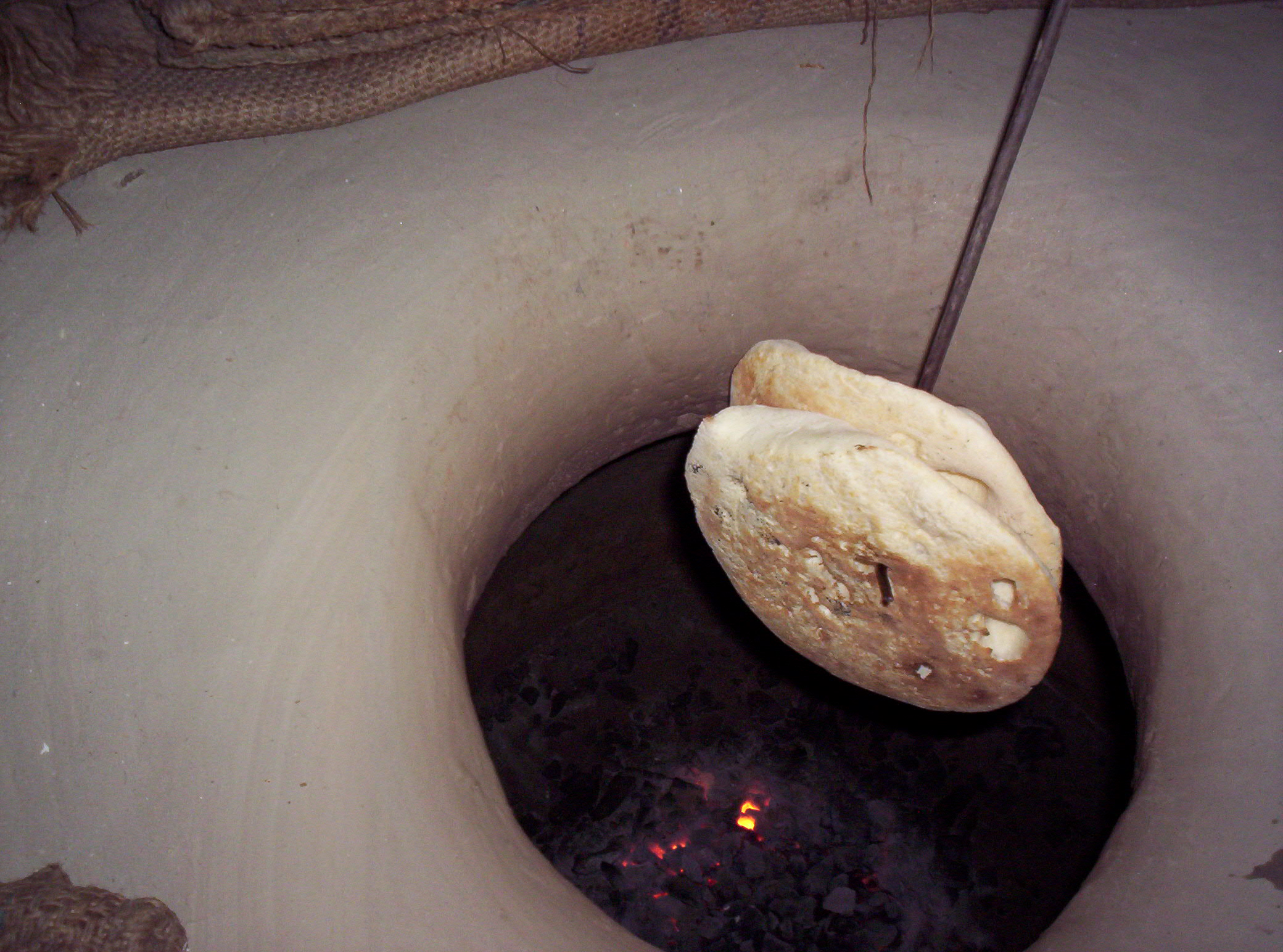 Making of Chapati, an Indian bread, in chulha